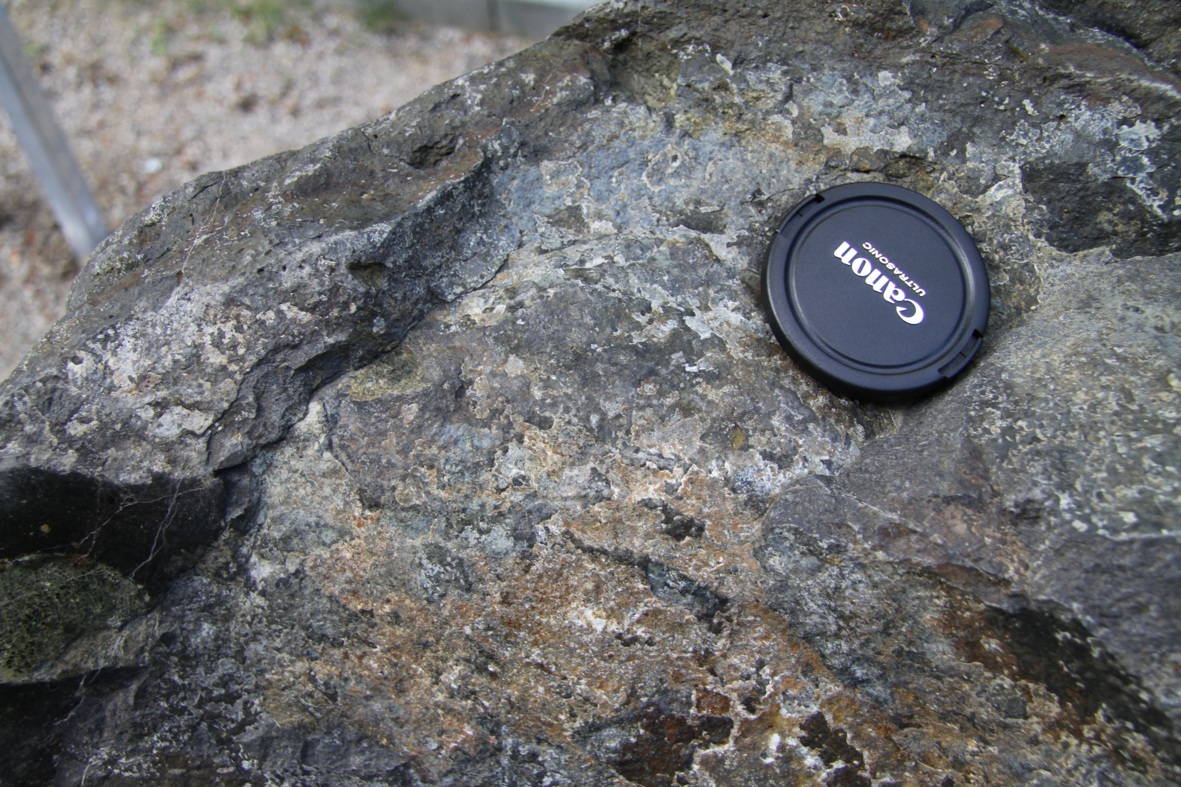 Basanite in Geopark in botanic garden on Albertov, Prague, Czech Republic. - Google Maps - Google Earth